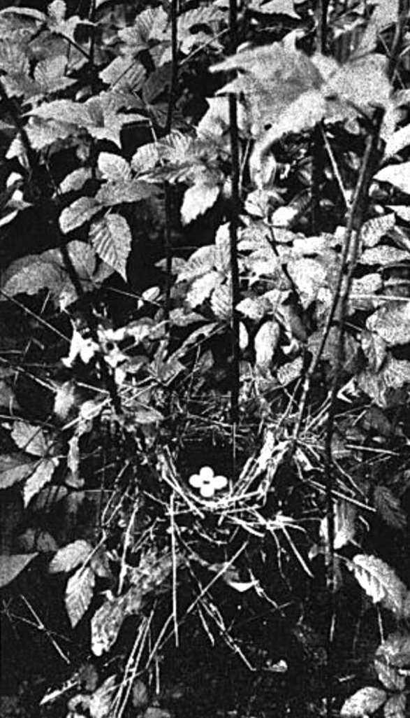 Nest and eggs photo from Bachman's Warbler breeding in Alabama (Auk) Vol. 37, No. 1, January-March, 1920.